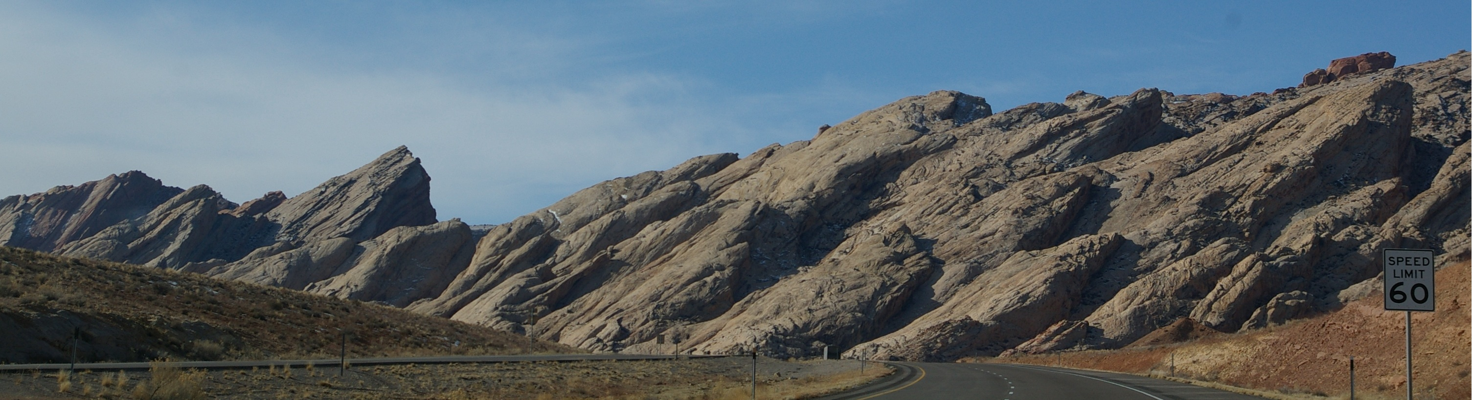 Entrance to the San Rafael Swell as seen from a View area along Interstate 70